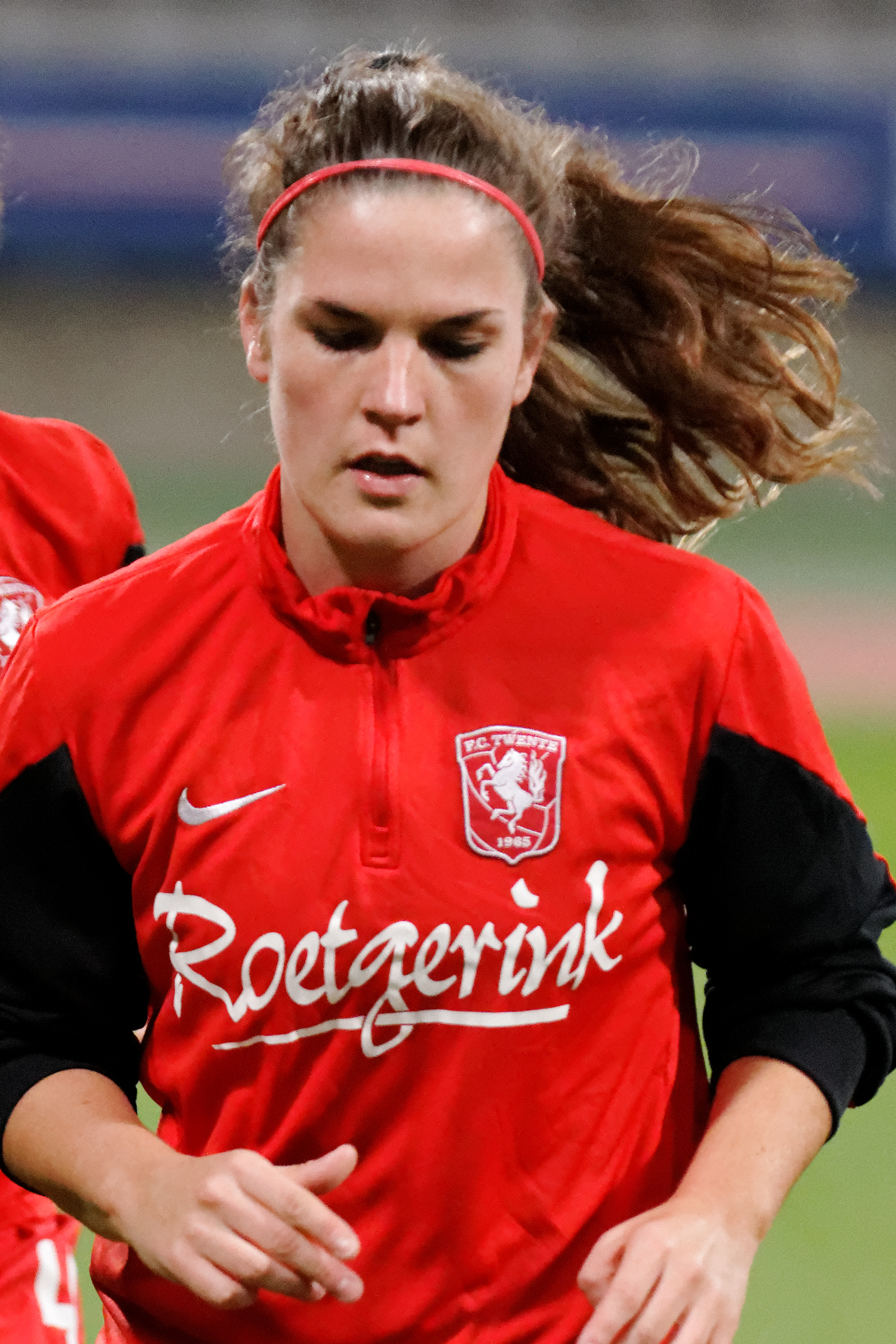 UEFA Women's Champions League, PSG - Twente, 15 October 2014